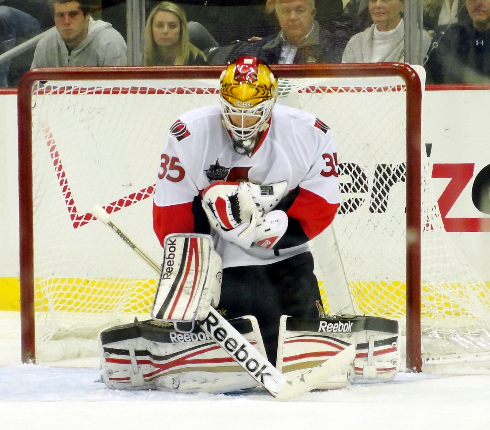 Alex Auld of the Ottawa Senators making a save in a November 25, 2011 game against the Pittsburgh Penguins at Consol Energy Center in Pittsburgh, PA.